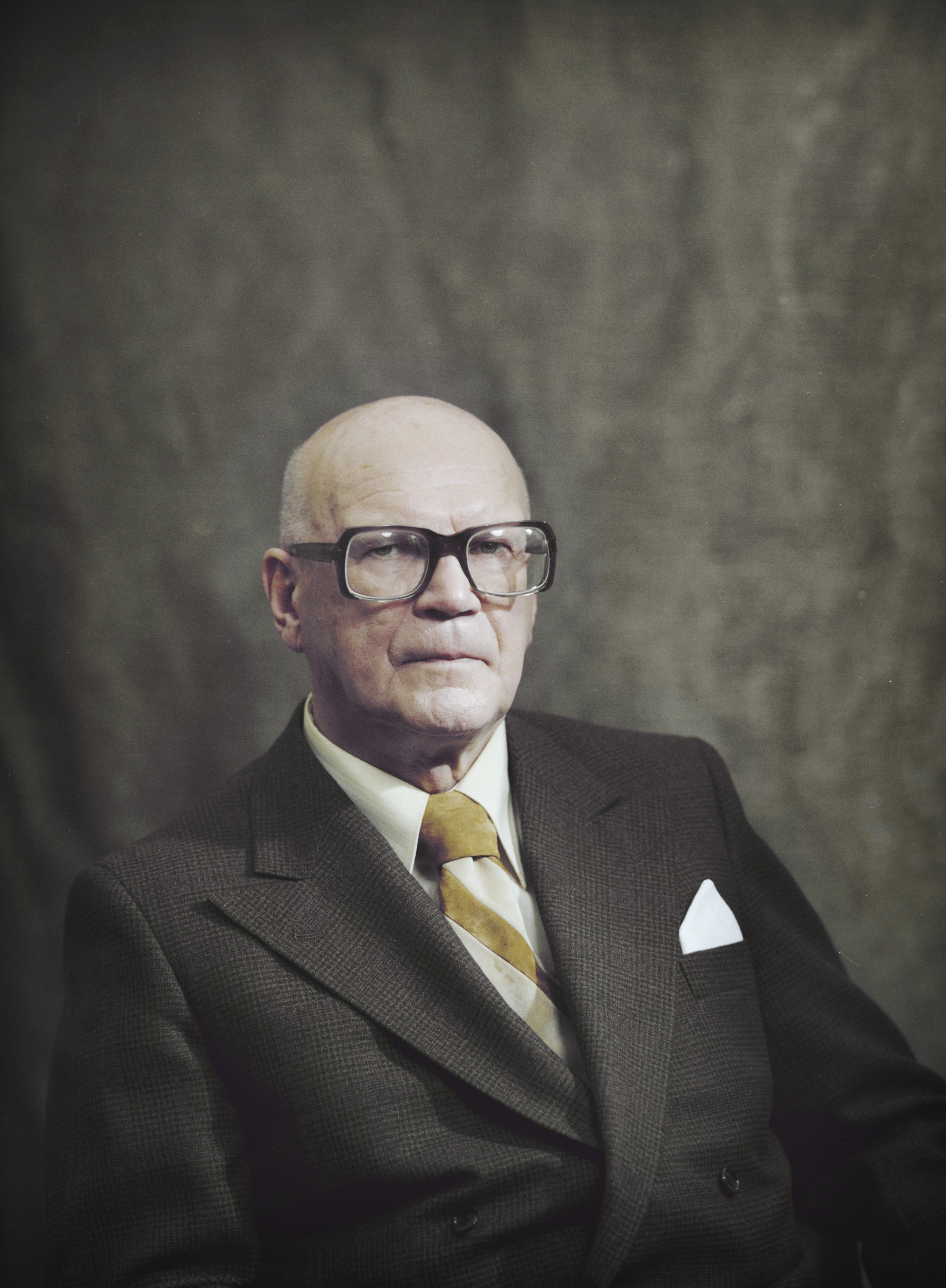 Portrait photograph of the President of Finland, Urho Kekkonen (1900–1986).